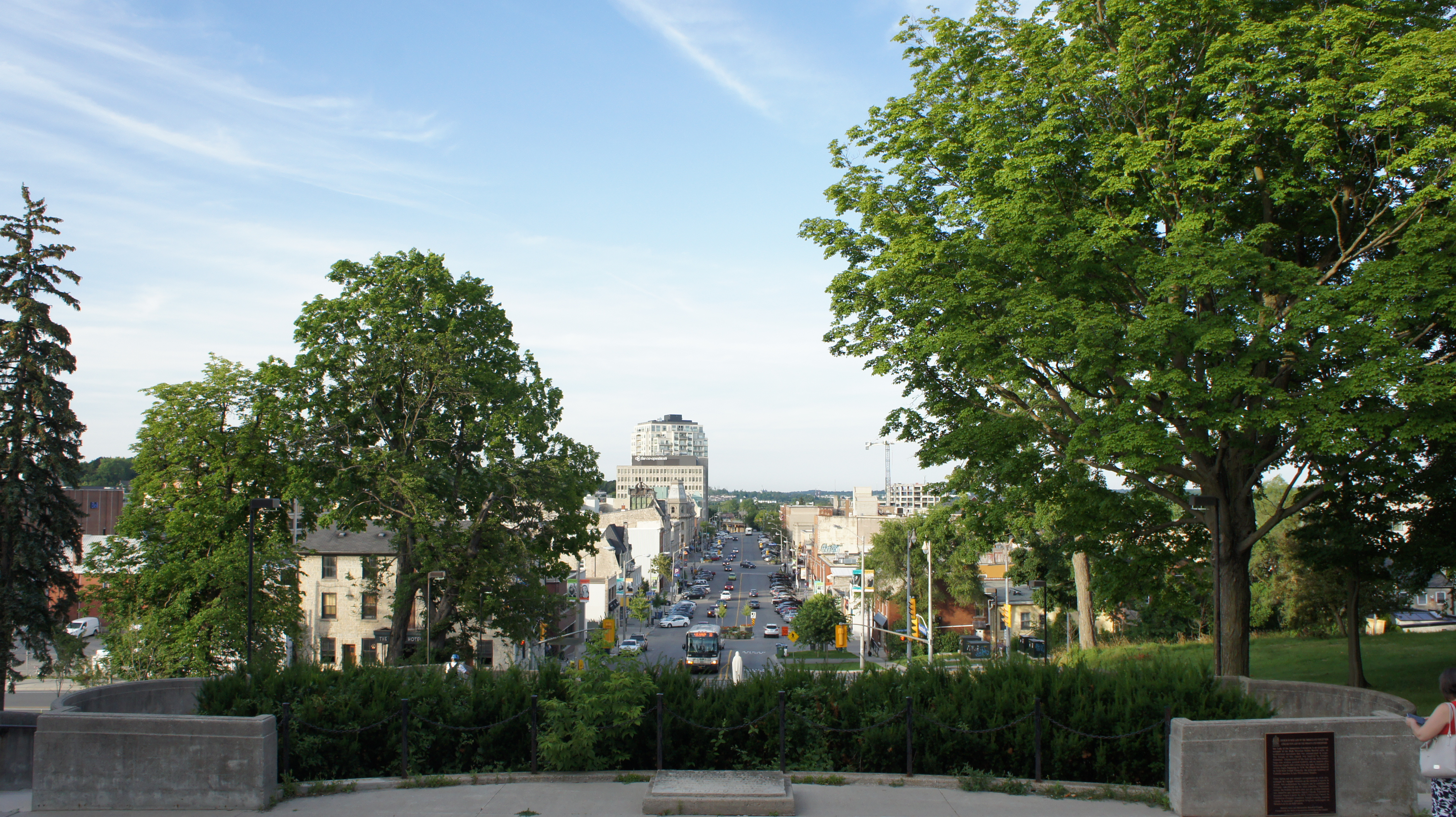 Guelph Downtown as seen from Basilica of Our Lady Immaculate, Guelph